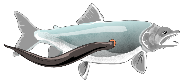 Lamprey attached to a ray finned fish